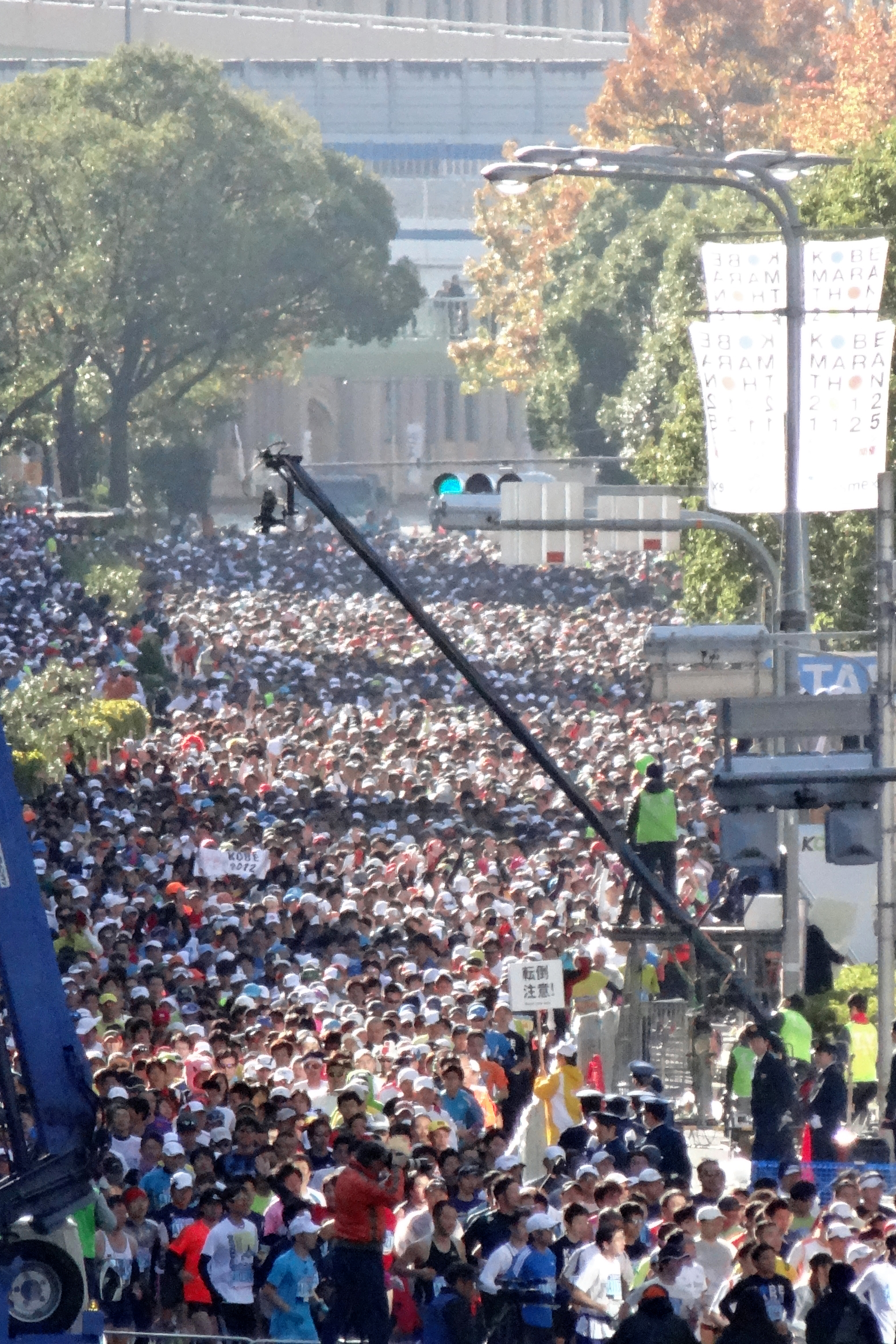 Kobe Marathon 2012 at Kobe, Hyogo prefecture, Japan